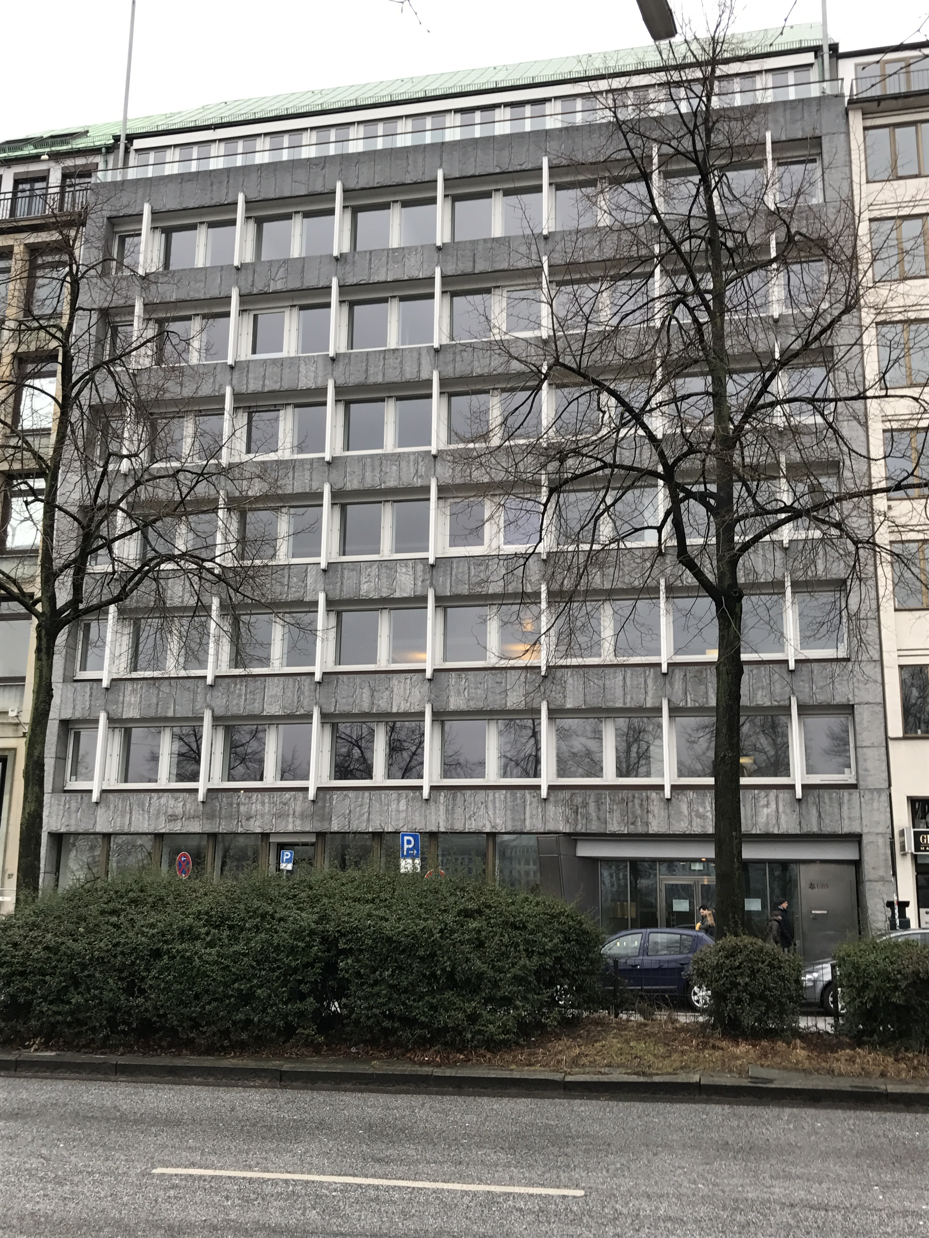 Office Building of Schröder, Münchmeyer, Hengst & Co. at Ballindamm 33 in Hamburg.